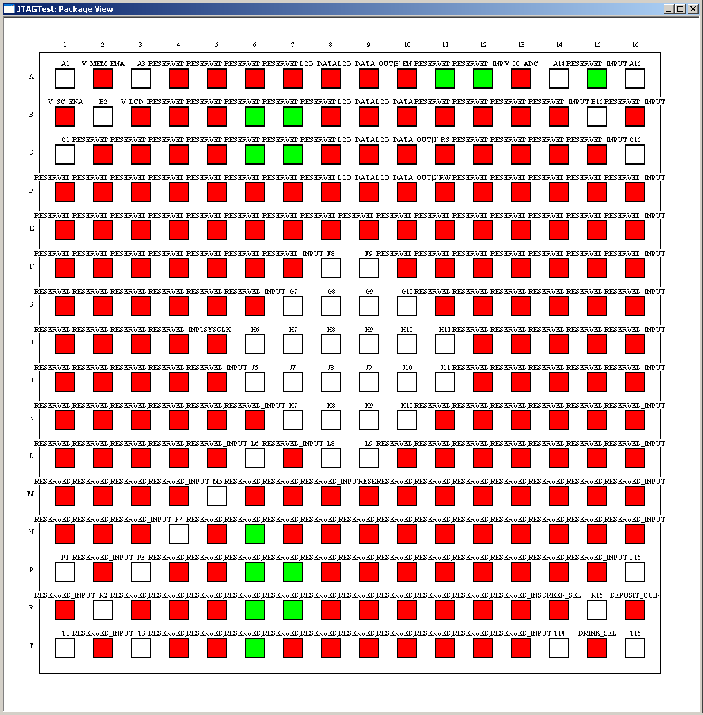 Ball grid array view in JTAGTest